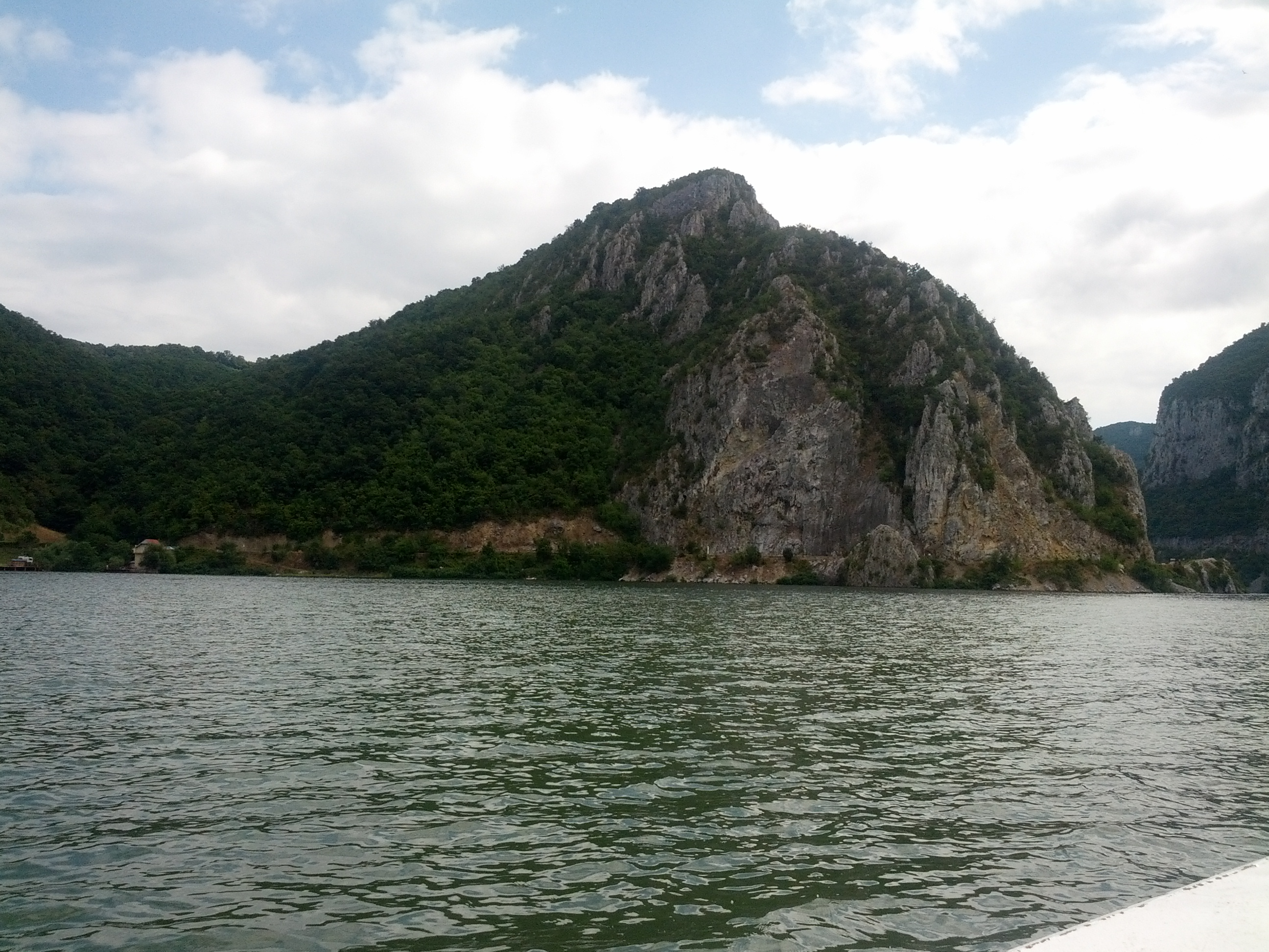 The bay made by the Danube near Dubova, Mehedinti County, Romania.